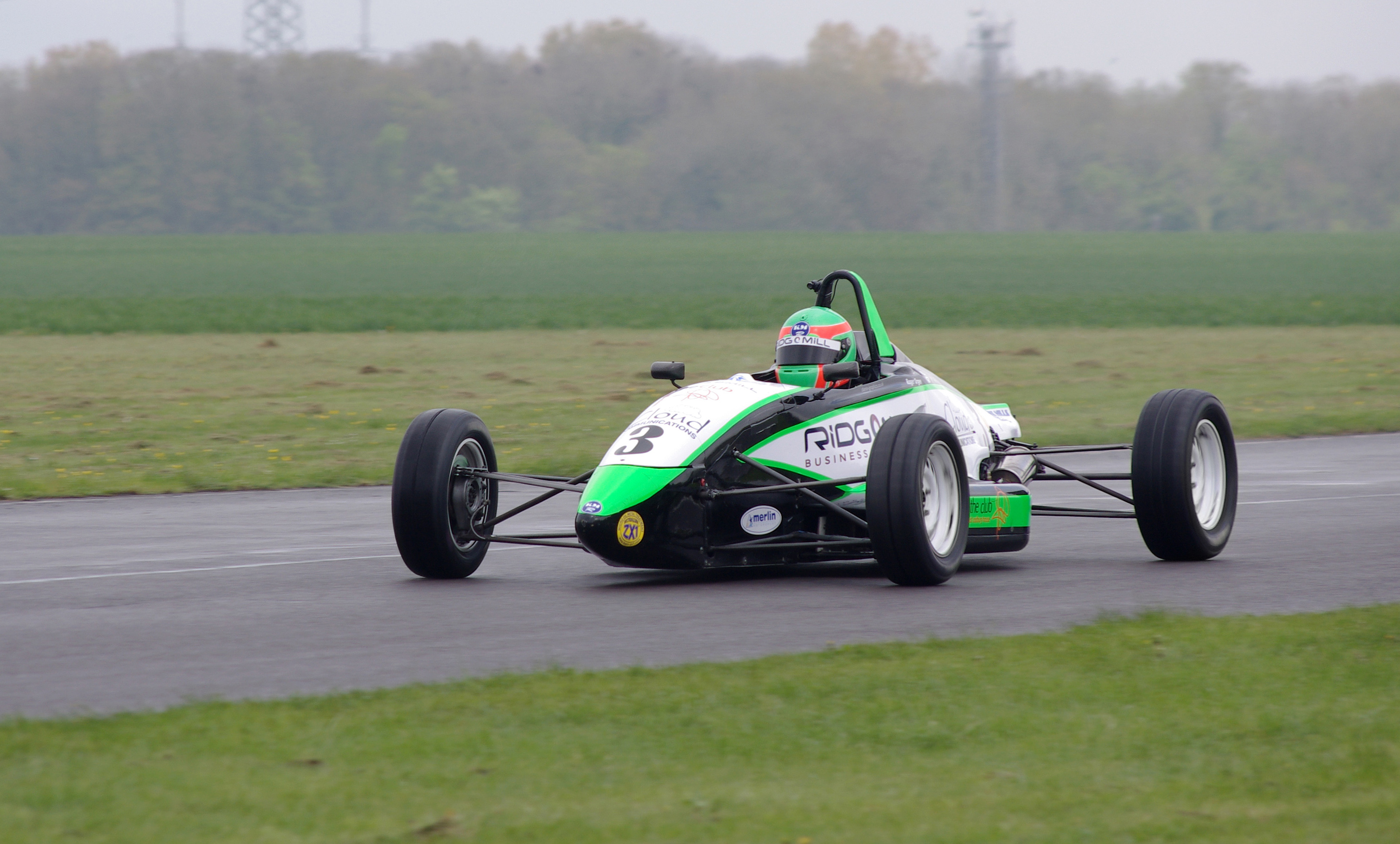 Roger Orgee passes Hammerdown at Castle Combe on the warm-up lap.